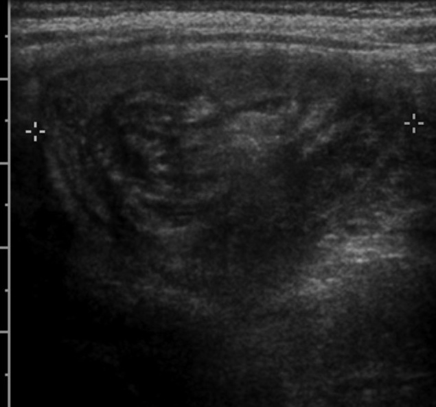 An ultrasound showing target sign which is a characteristic finding for intussusception on ultrasound, this ultrasound is for a 3 year old boy with intestinal intussusception. source: and case